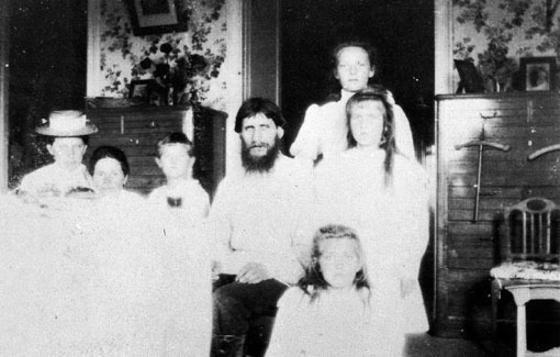 Rasputin, the Imperial children and governesses.